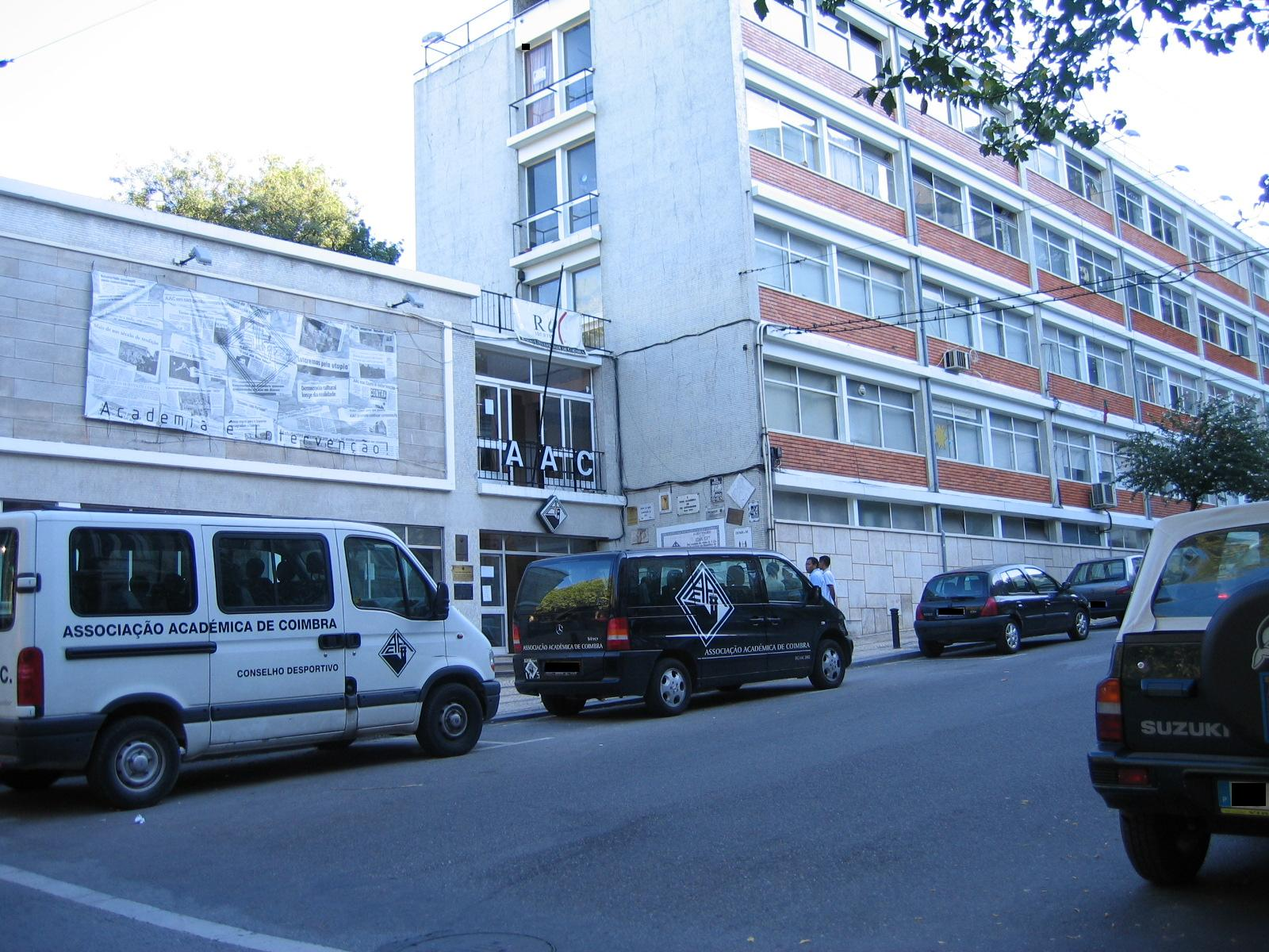 Main building (right) of the Associação Académica de Coimbra (AAC) (Coimbra Academic Association) in Coimbra, Portugal. I made this photo myself with my own digital camera.